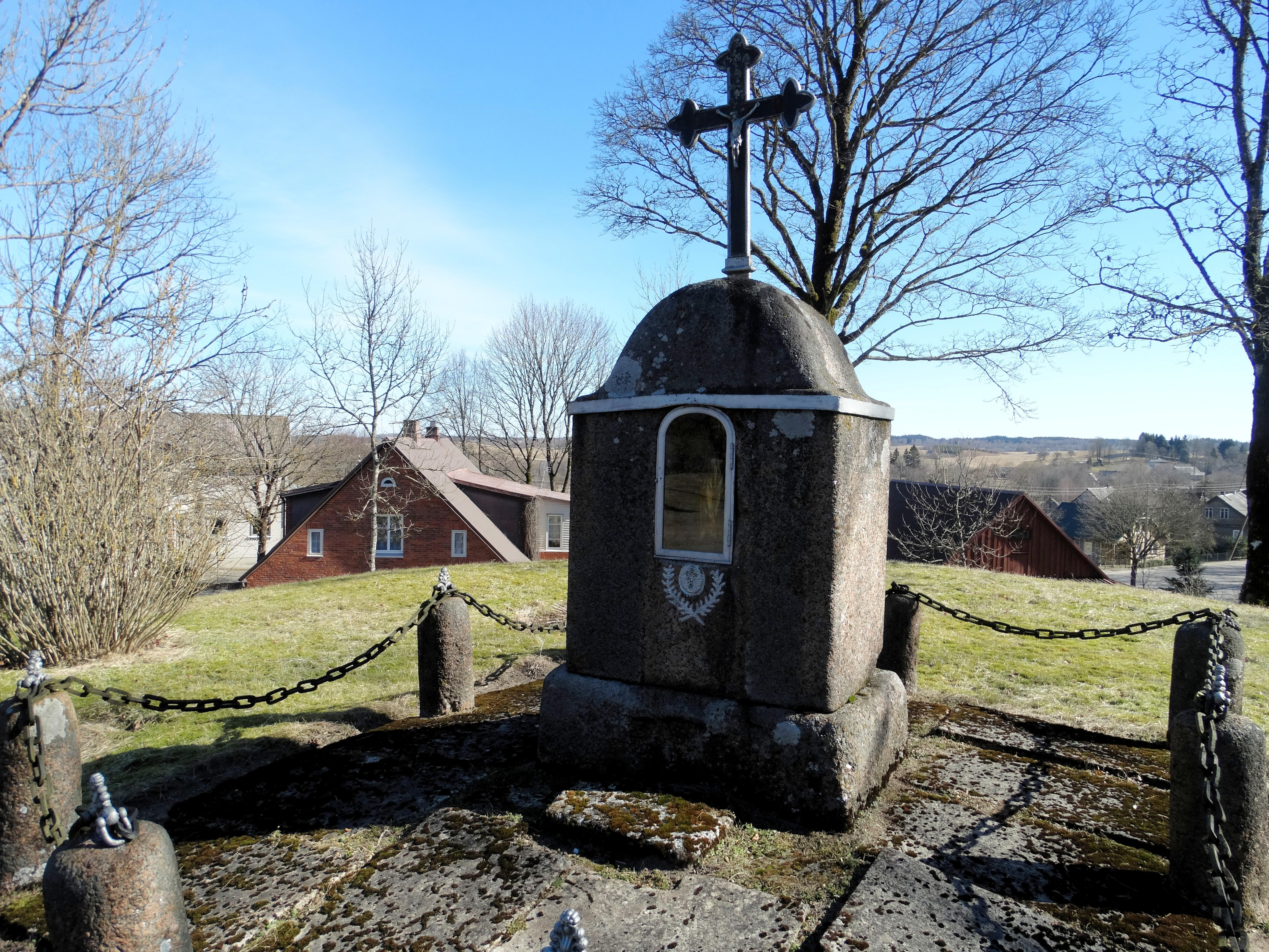 Tombstone of Jonas Krizostomas Gintila (1788–1857), Alsėdžiai, Plungė district, Lithuania